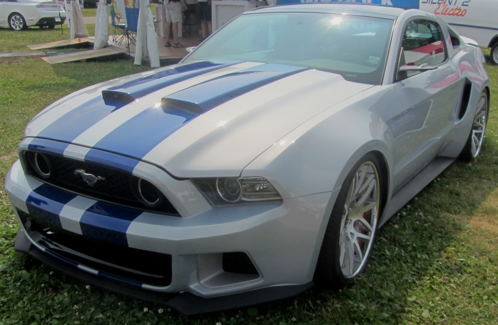 Mustang used in Need For Speed Movie